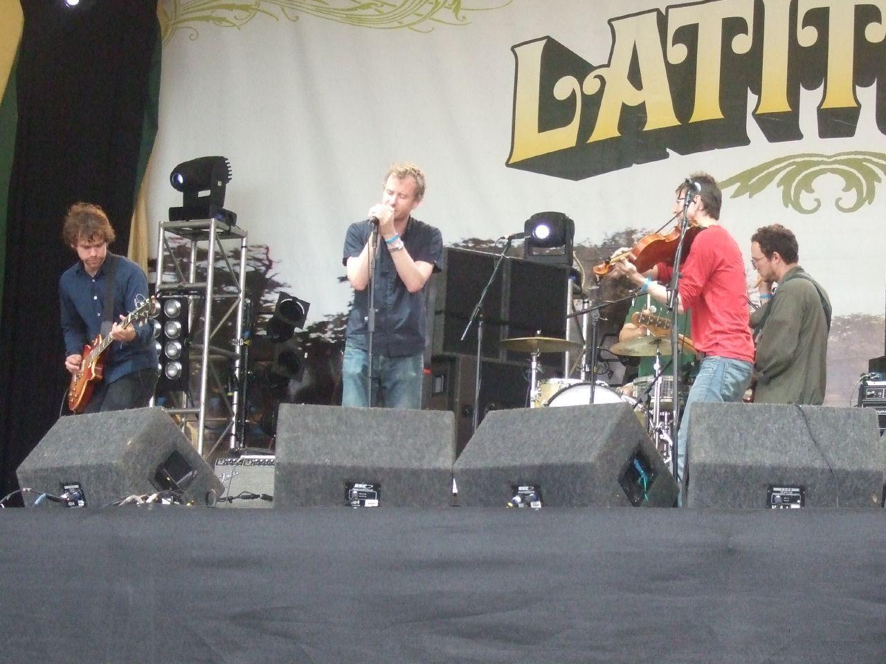 The National is an American rock band.